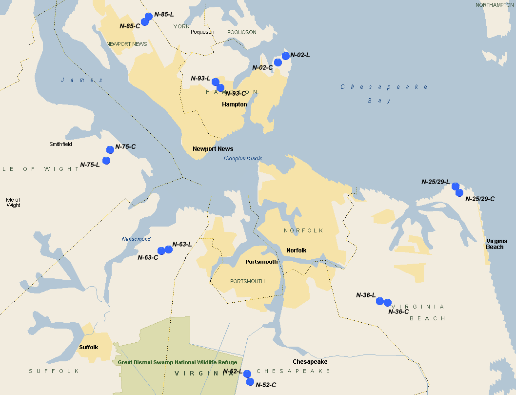 Norfolk Defense Area Nike Missile Sites